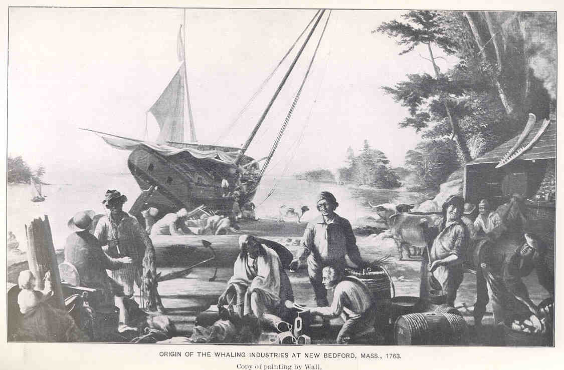 Origin of the Whaling Industries at New Bedford, Mass.; 1763 Subject: Whaling, New Bedford (Massachusetts) Geographic Subject: United States--Massachusetts--New Bedford Tag: Aquatic Mammals